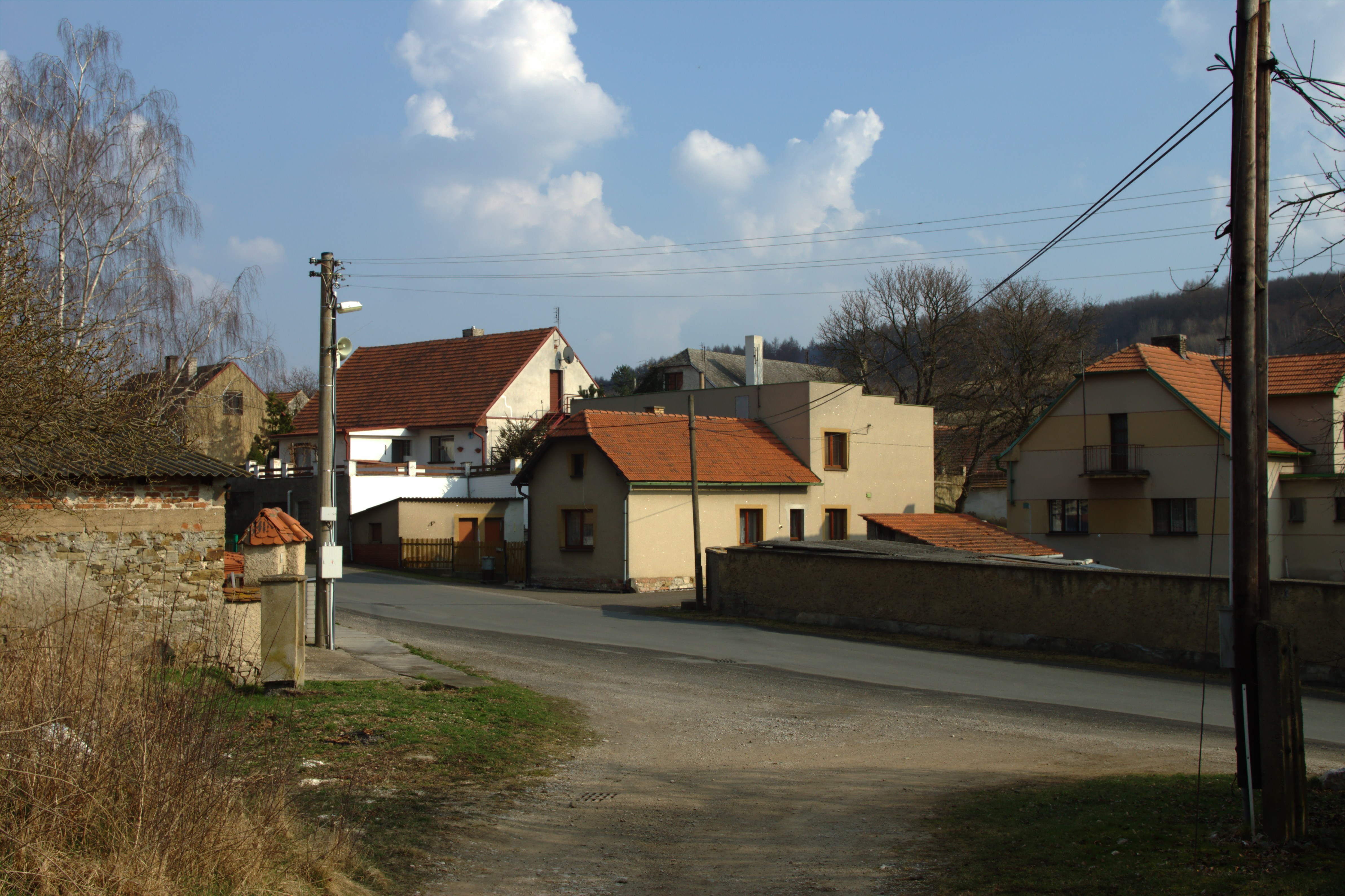 Main road in the Želkovice village, part of the town of Libomyšl, Central Bohemian Region, CZ